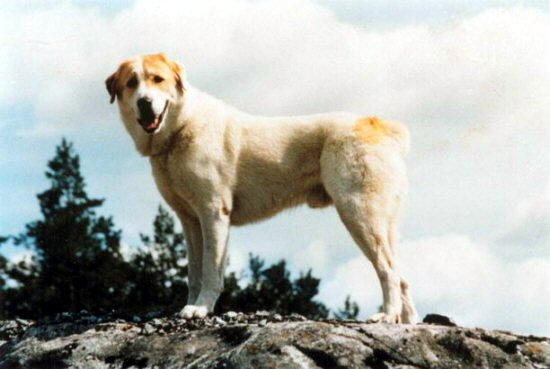 Central Asia Shepherd Dog